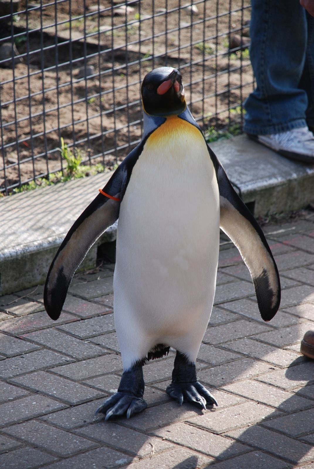 The unofficial "mascot" of His Majesty The King's Guard, a battalion of the Norwegian Army, is a King Penguin named Nils Olav, which is part of the population at Edinburgh Zoo. The first penguin was adopted during the regiment's first participation in the Edinburgh Military Tattoo in 1961 and went on to achieve the rank of Regimental Sergeant-Major in 1993. The penguin died that year, and was replaced by a second penguin, also named Nils Olav. The current penguin was awarded the Norwegian Army's Long Service and Good Conduct medal in 2005 on the regiment's latest visit to the Tattoo.